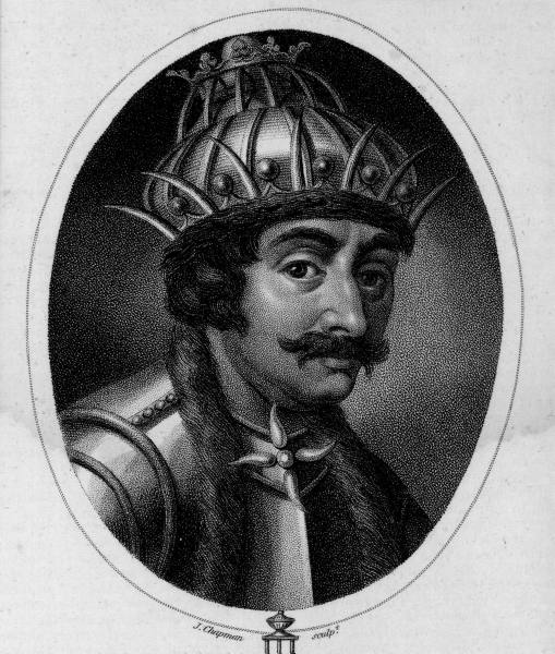 Theodorich's portrait; king of the Ostrogot Empire